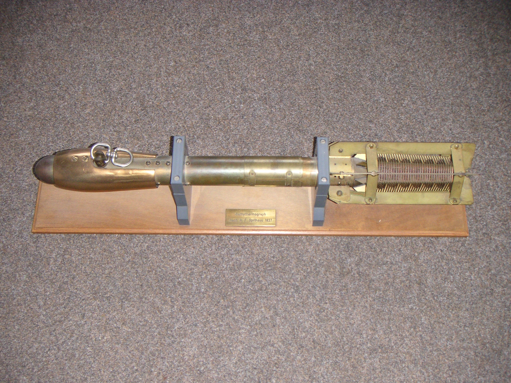 Bathythermograph of Spilhaus